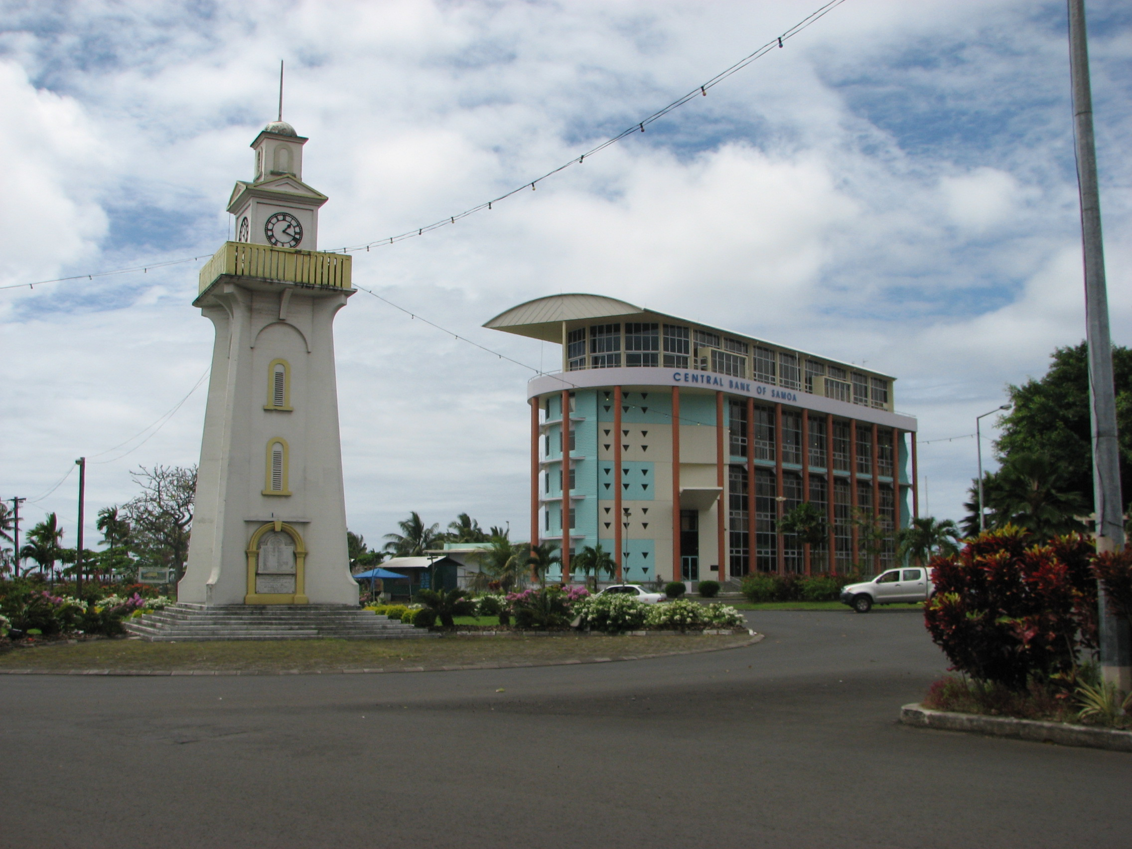 Clocktower in Apia, 2009 (donated by the family of Olaf Frederick Nelson, a Samoan/Swedish merchant and leader of Samoa's pro-independence Mau movement. Behind the tower is the office building of the Central Bank of Samoa, which issues the Samoan currency.